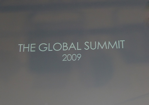 Logo of The Global Summit. Cologne, Germany.